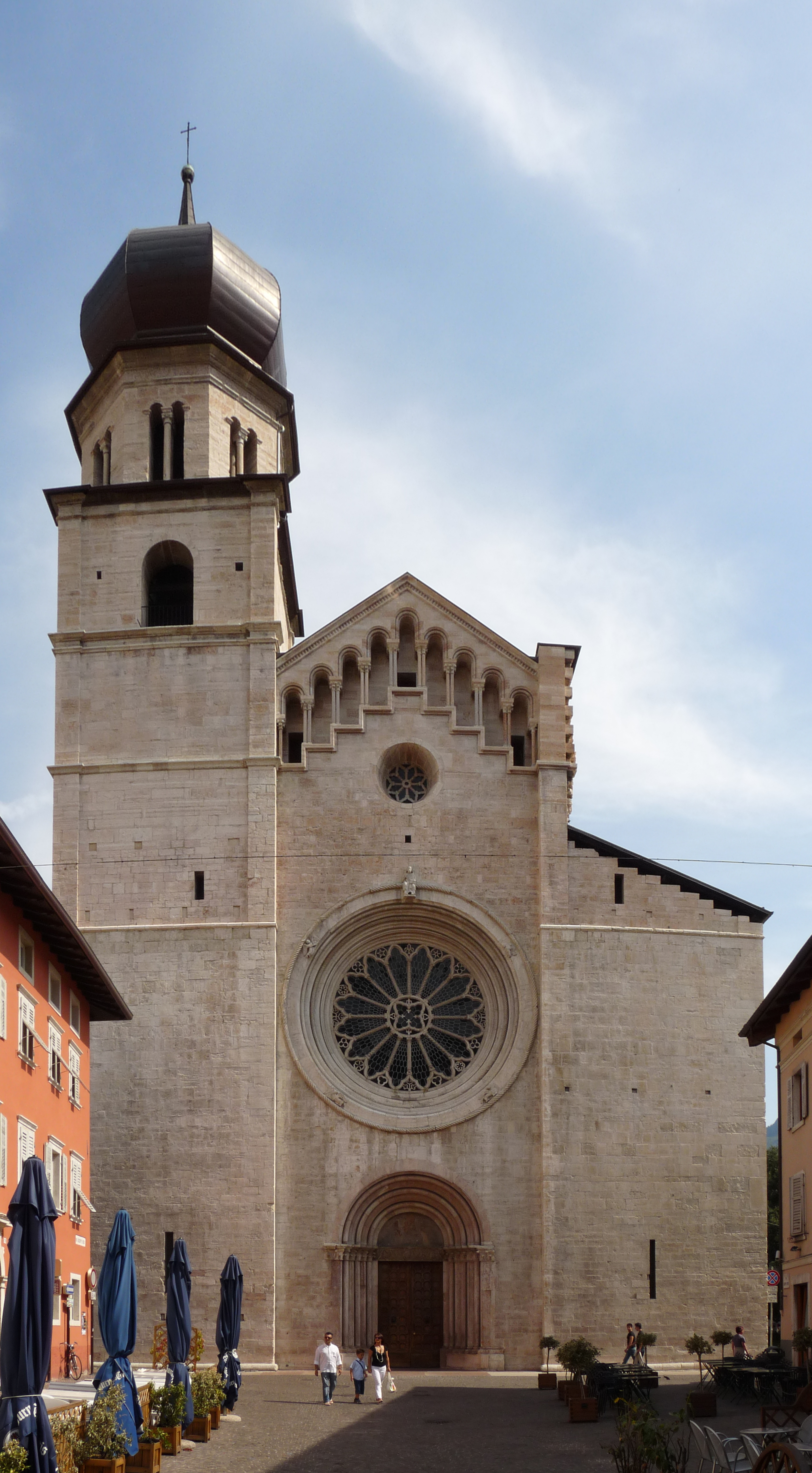 Trento (Italy): front of the cathedral of Saint Vigilius